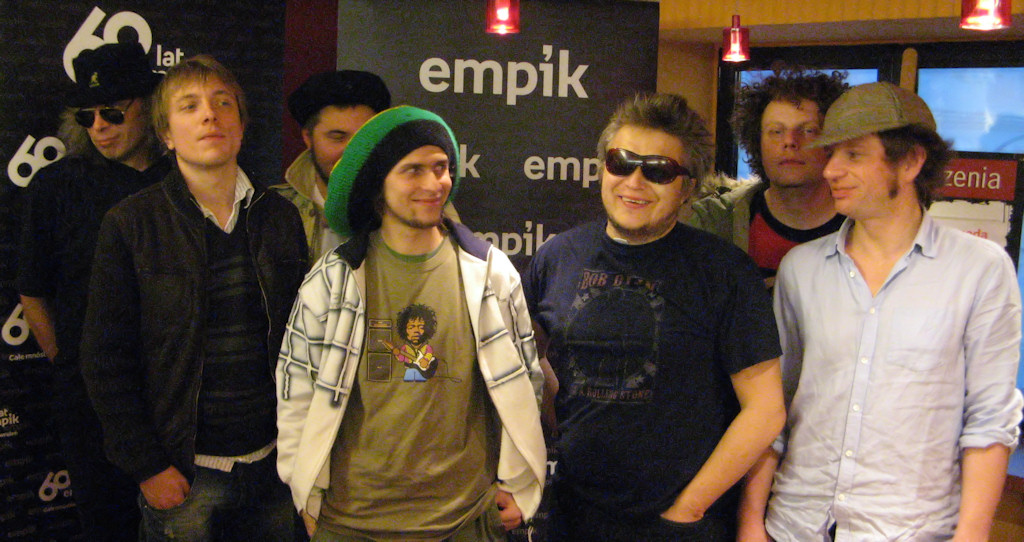 T.Love - Polish rock band